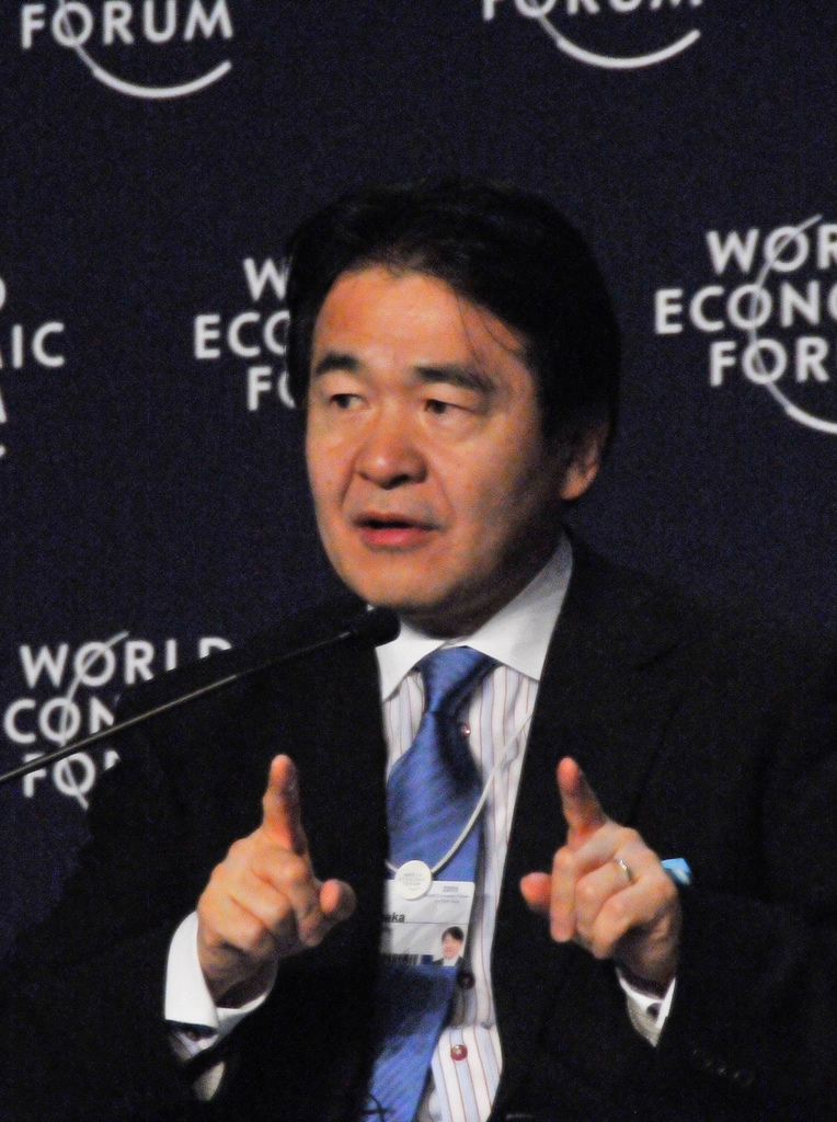 Heizo Takenaka in Grand Hyatt Seoul, South Korea during the World Economic Forum on East Asia 2009.